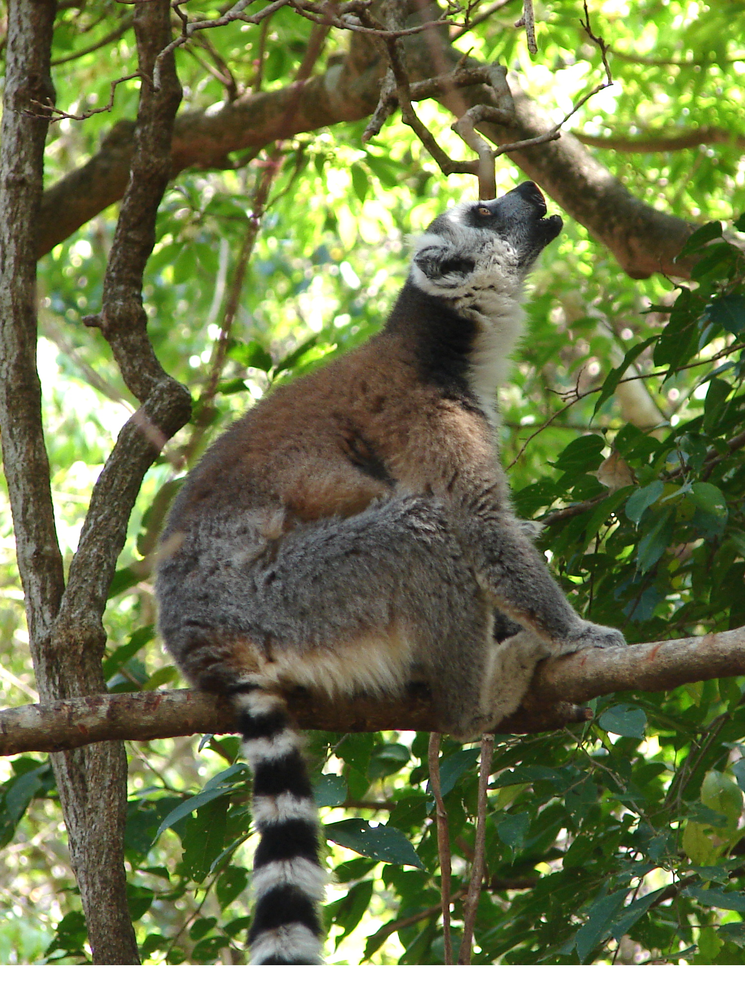 Ring-Tailed Lemur Calling, Anja Reserve